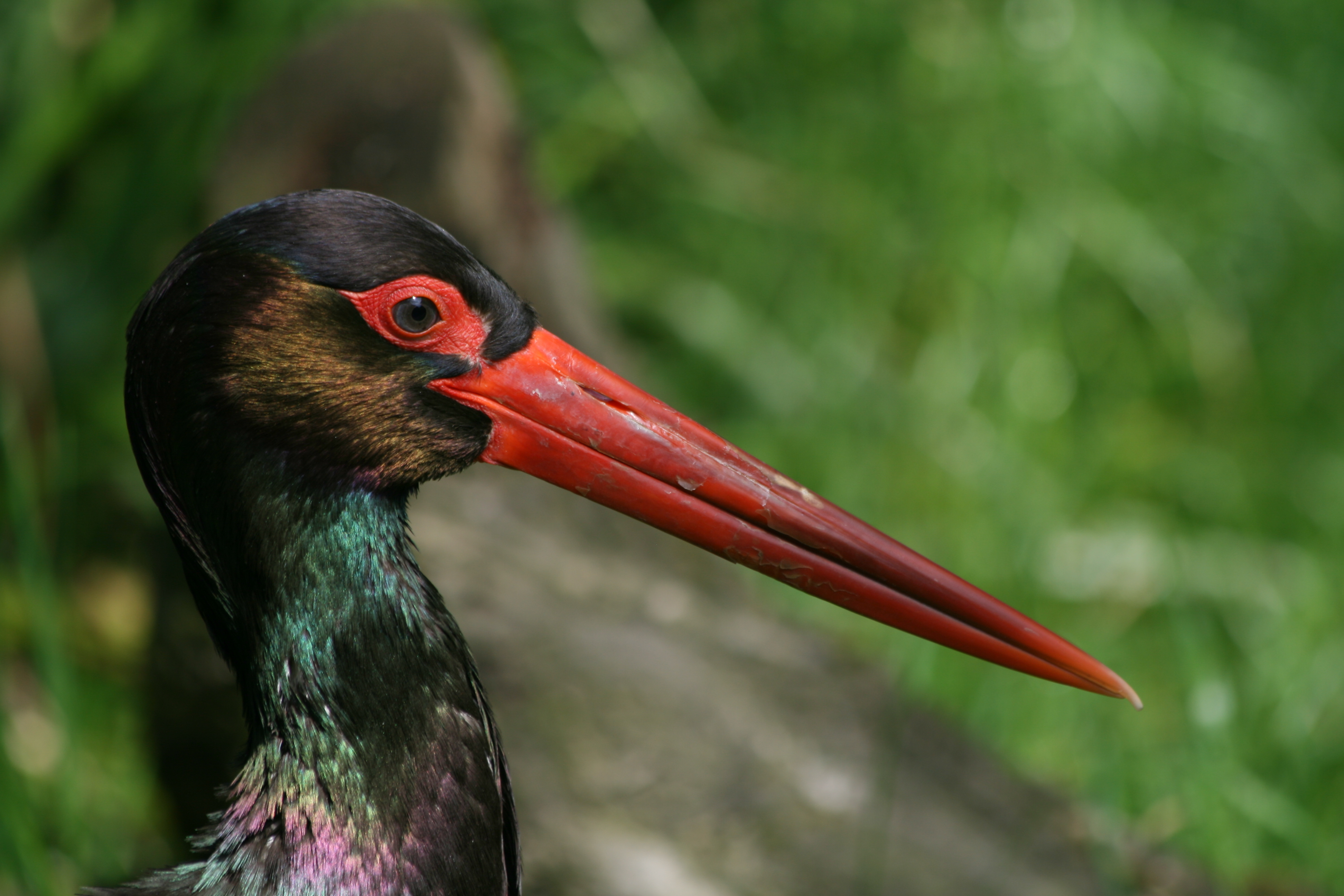 Black stork (Ciconia nigra) in Duisburg Zoo, Germany